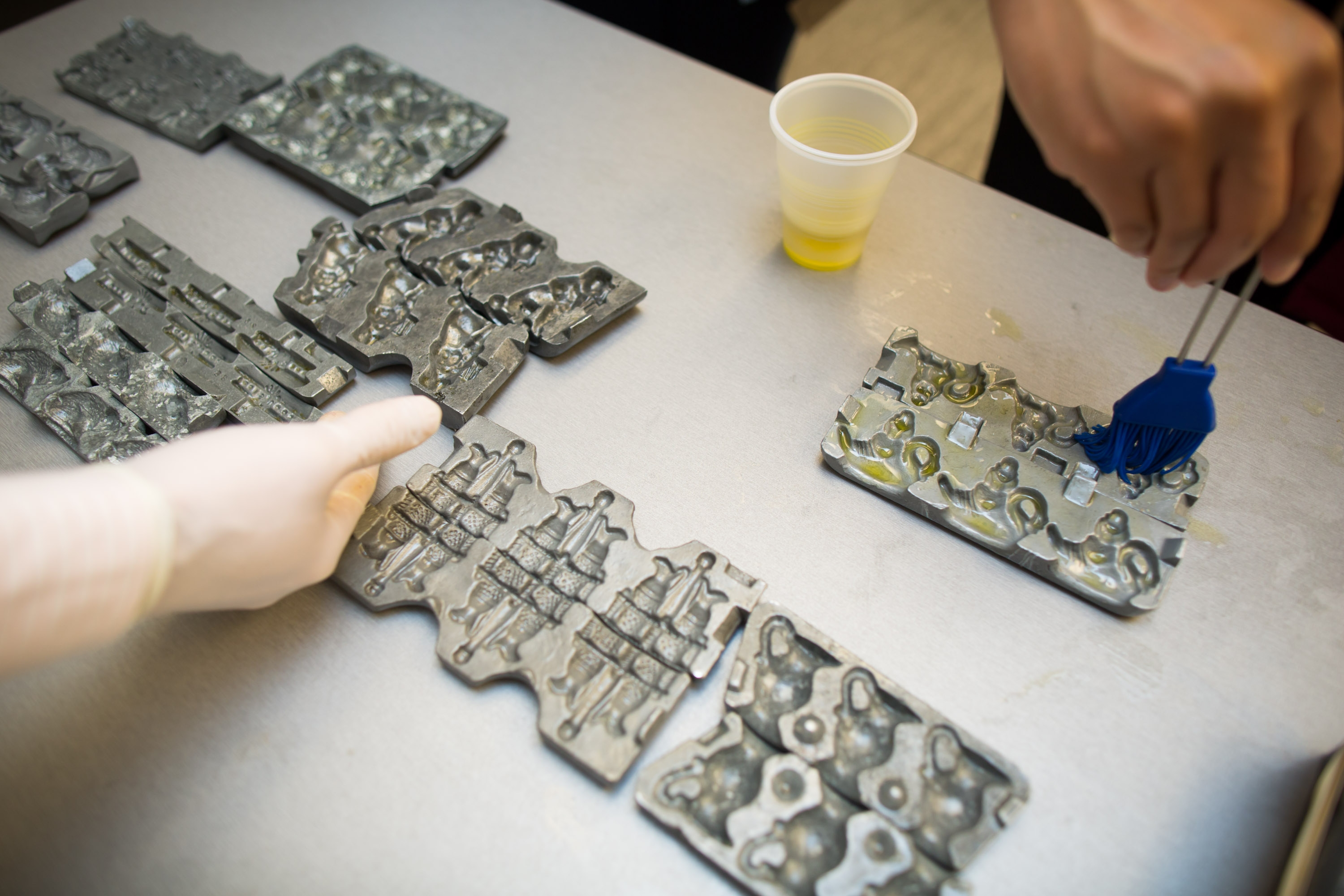 Preparing clear toy candy molds by brushing them with oil to prevent sticking. Photograph from "Sugar and Spice", a clear toy candy-making demonstration, held on First Friday, 7 December 2012 at the Chemical Heritage Foundation, Philadelphia, PA, USA. Ryan Berley, co-owner of Philadelphia’s old-timey favorites Shane Confectionery and the Franklin Fountain, discussed the history and science of traditional clear toy candy making.